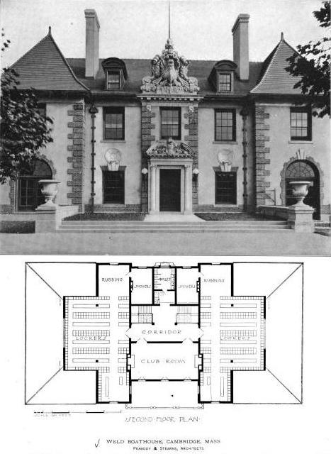 Close-up view of front elevation of Harvard University's Weld Boathouse, together with plan of second floor, which features locker rooms and adjacent "rubbing rooms".